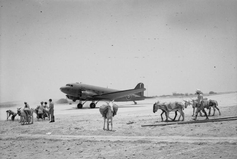 Royal Air Force Operations in the Far East, 1941-1945. Dakota Mark IV, KN394 'M', of No. 187 Squadron RAF based at Merryfield, Somerset, taxies past a donkey train at Mauripur air terminal, Kiamari Town, Karachi, India. Mauripur was the first Indian staging post on the trooping flights between the United Kingdom and Poona undertaken by the Squadron from April 1945 to March 1946.